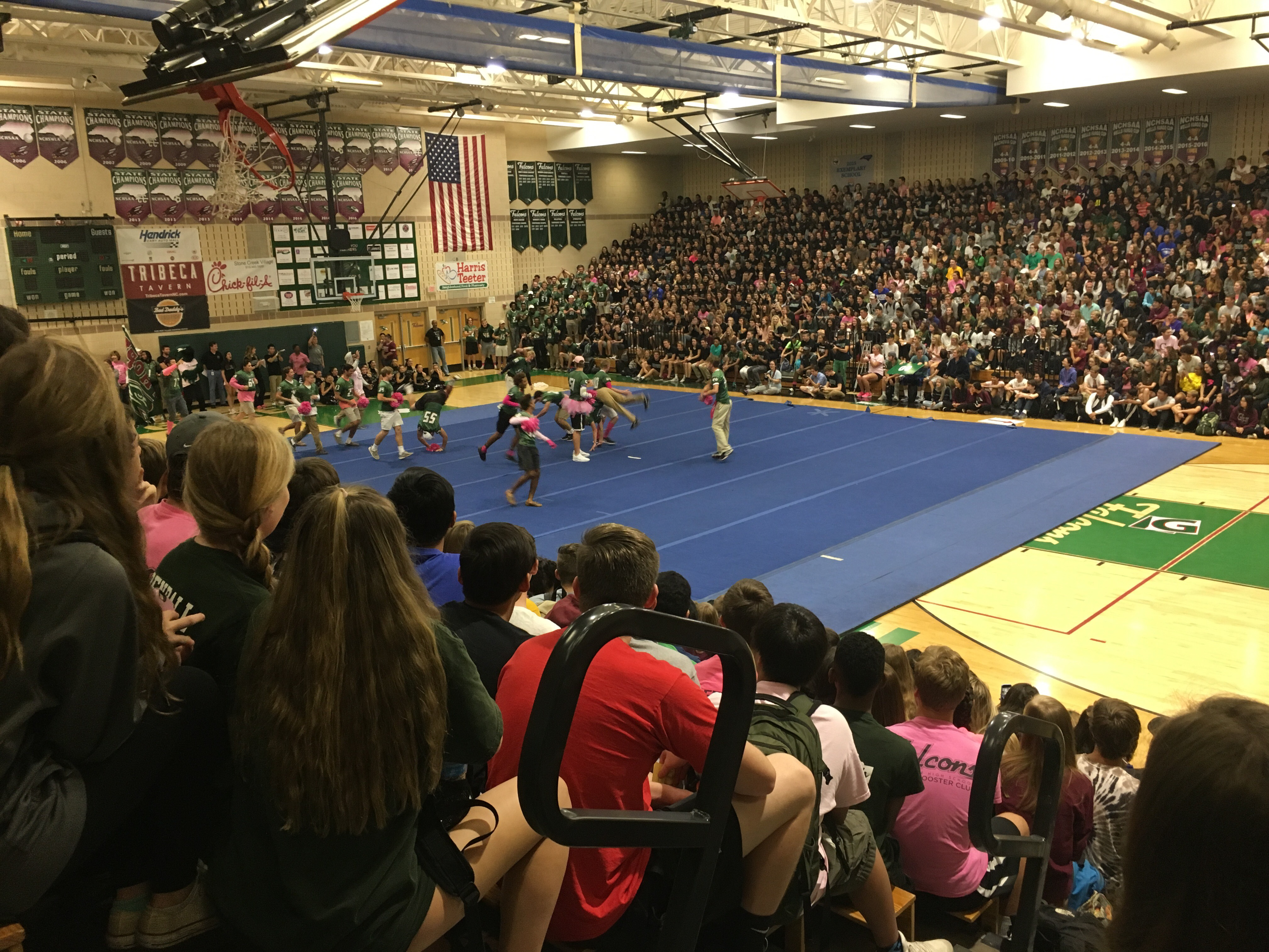 Pep rally in the main gymnasium